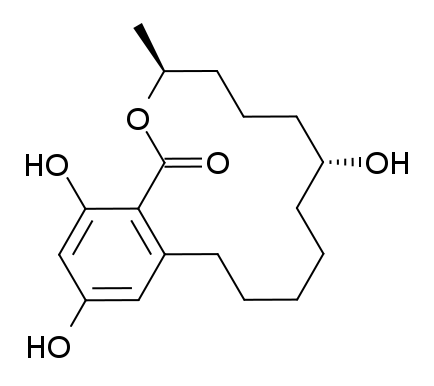 Structure of zeranol